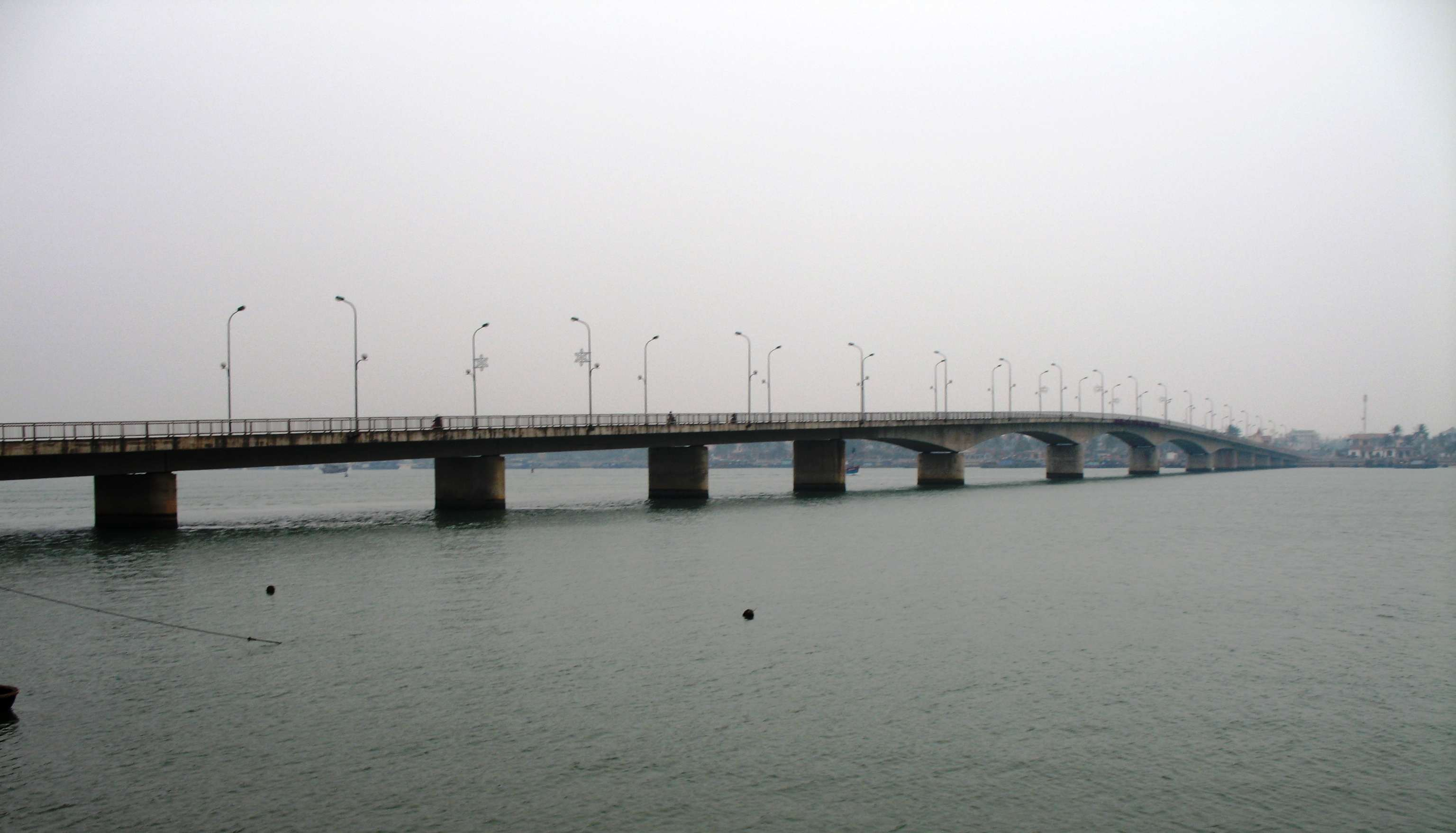 Nhật Lệ bridge in Nhật Lệ river, Đồng Hới city, Quảng Bình province